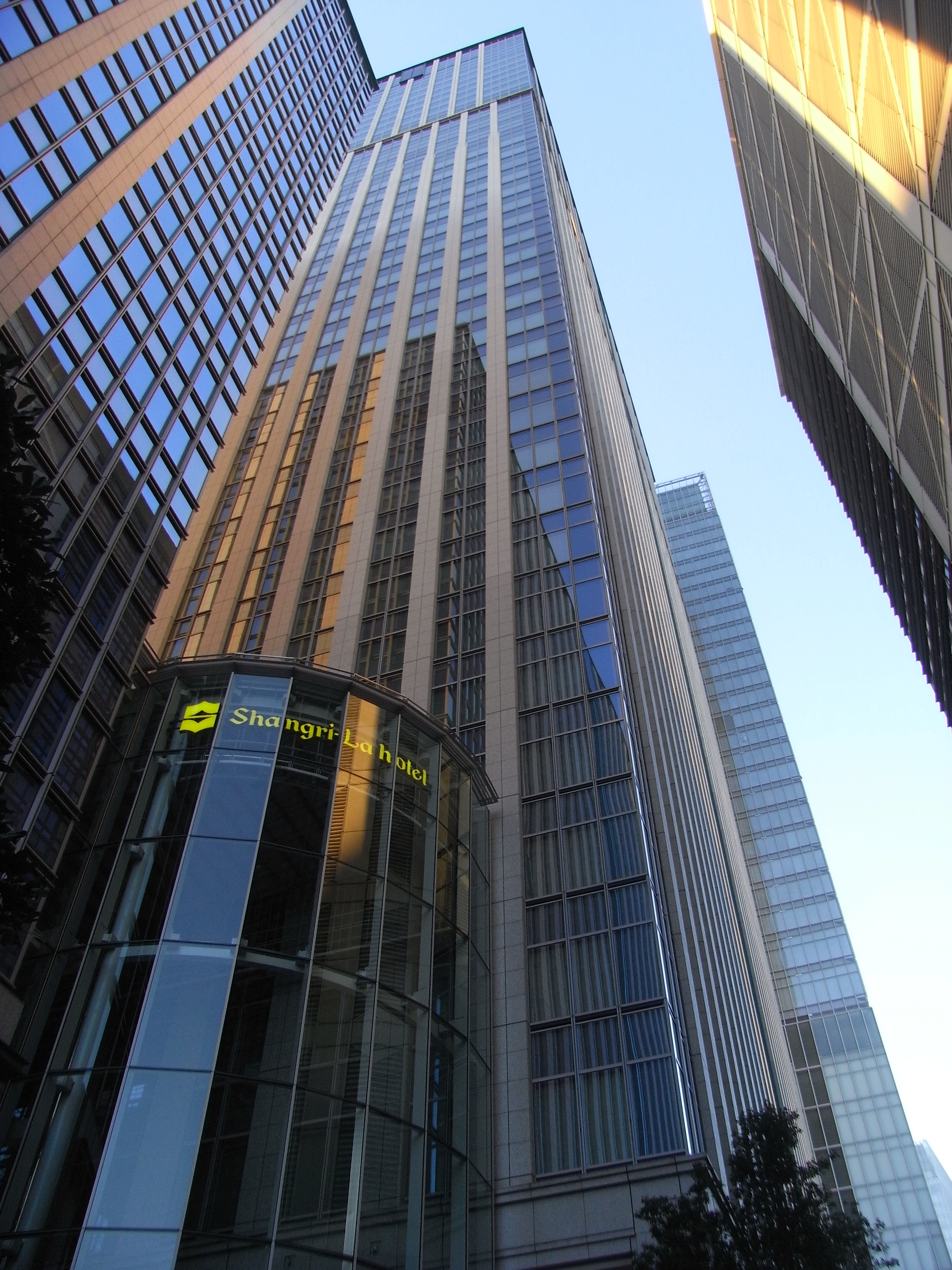 Marunouchi Trust Tower (丸の内トラストタワー) - headquarters of Calbee